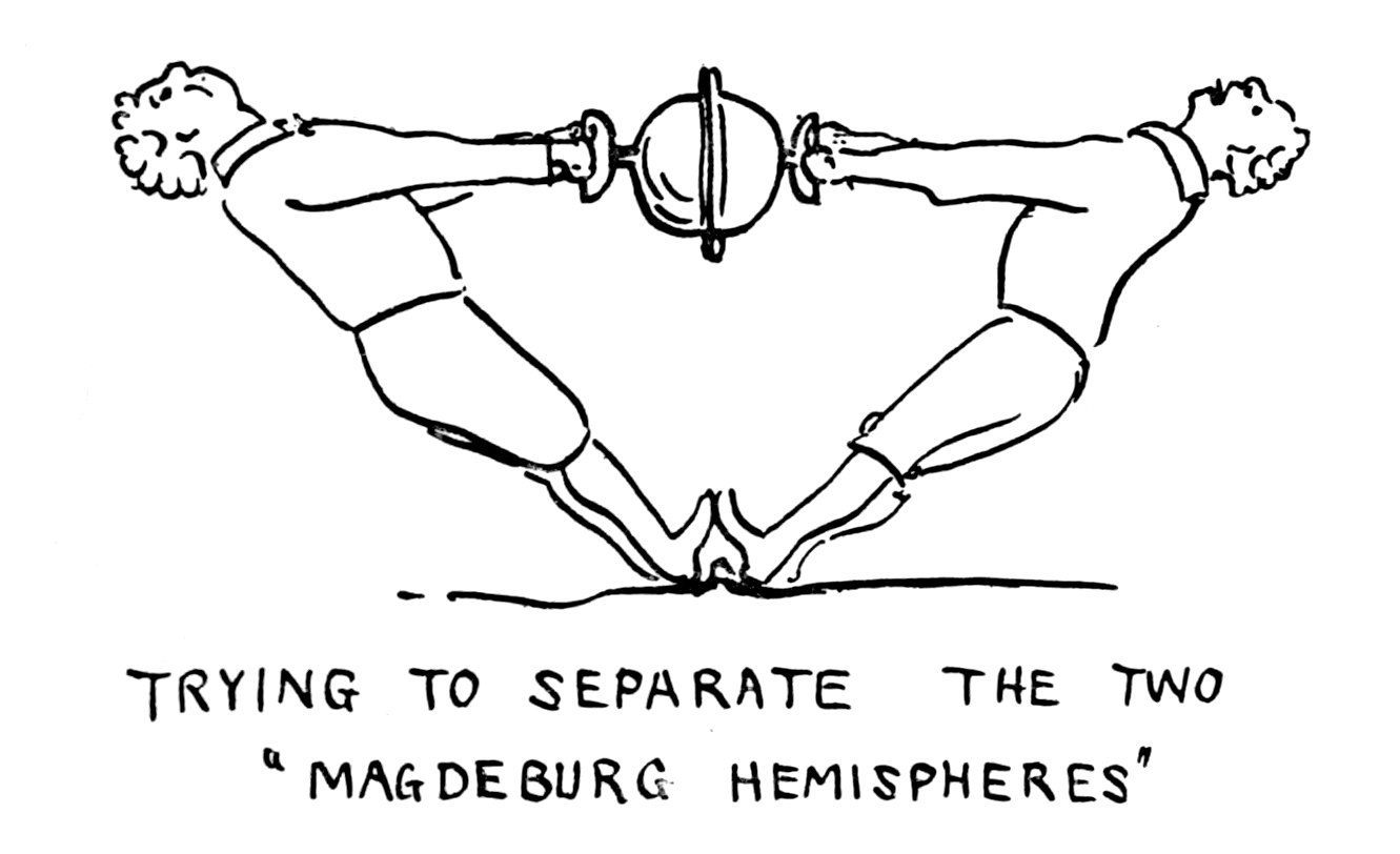 Men trying to separate Magdeburg hemispheres.